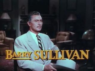 Cropped screenshot of Barry Sullivan from the film Her Twelve Men